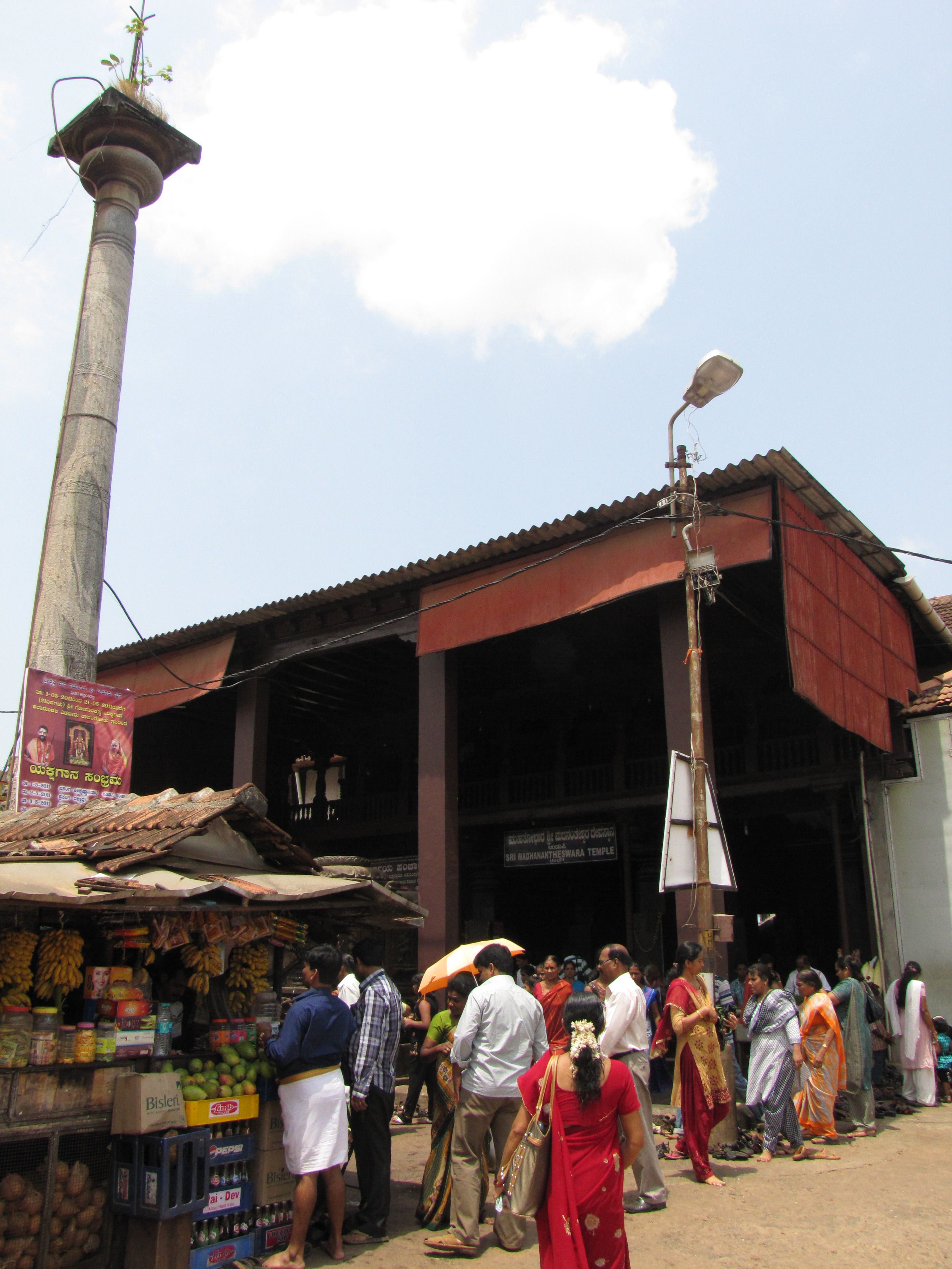 Sri Madhanantheshwara Temple Udupi